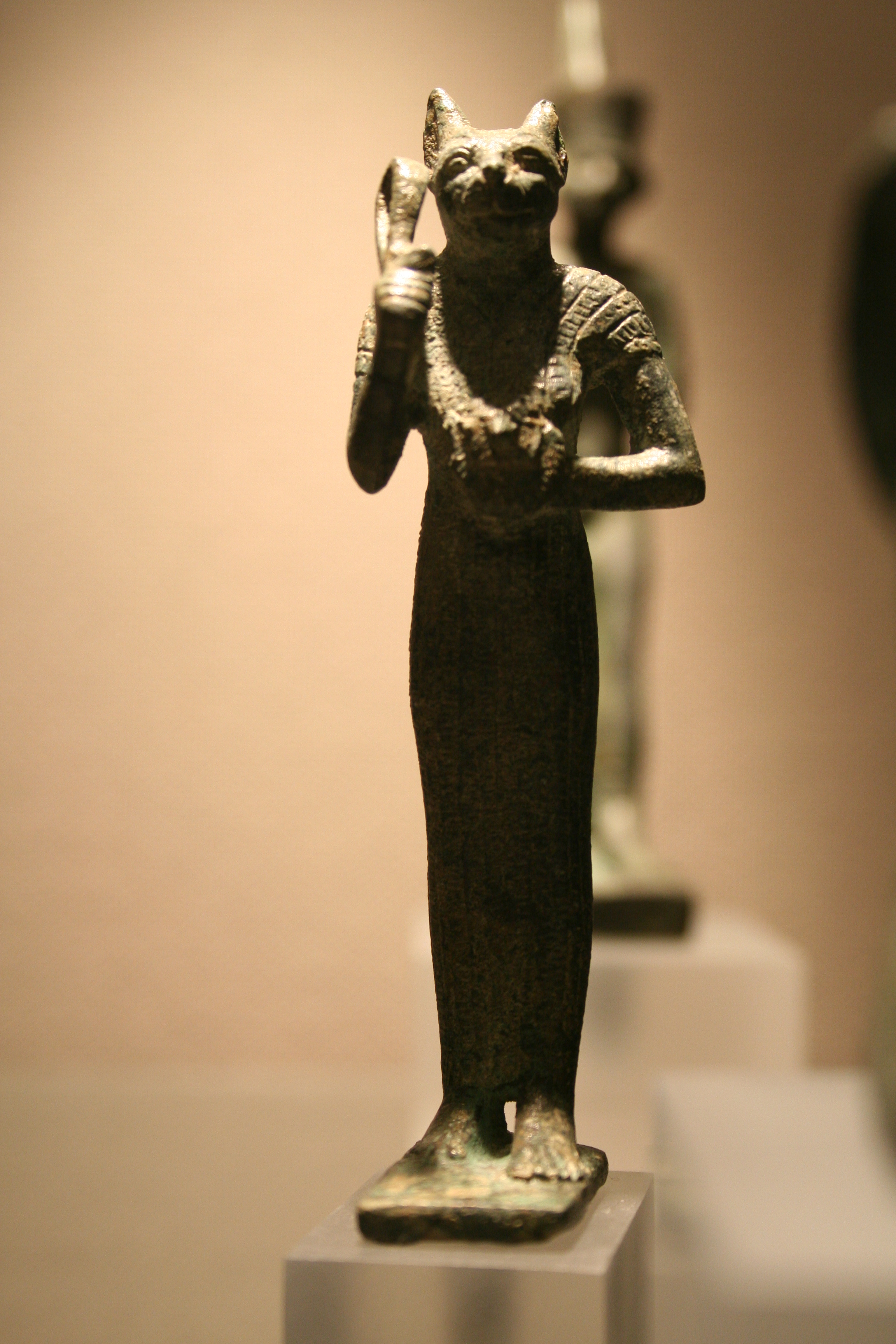 Statuette of Bastet; Late Period